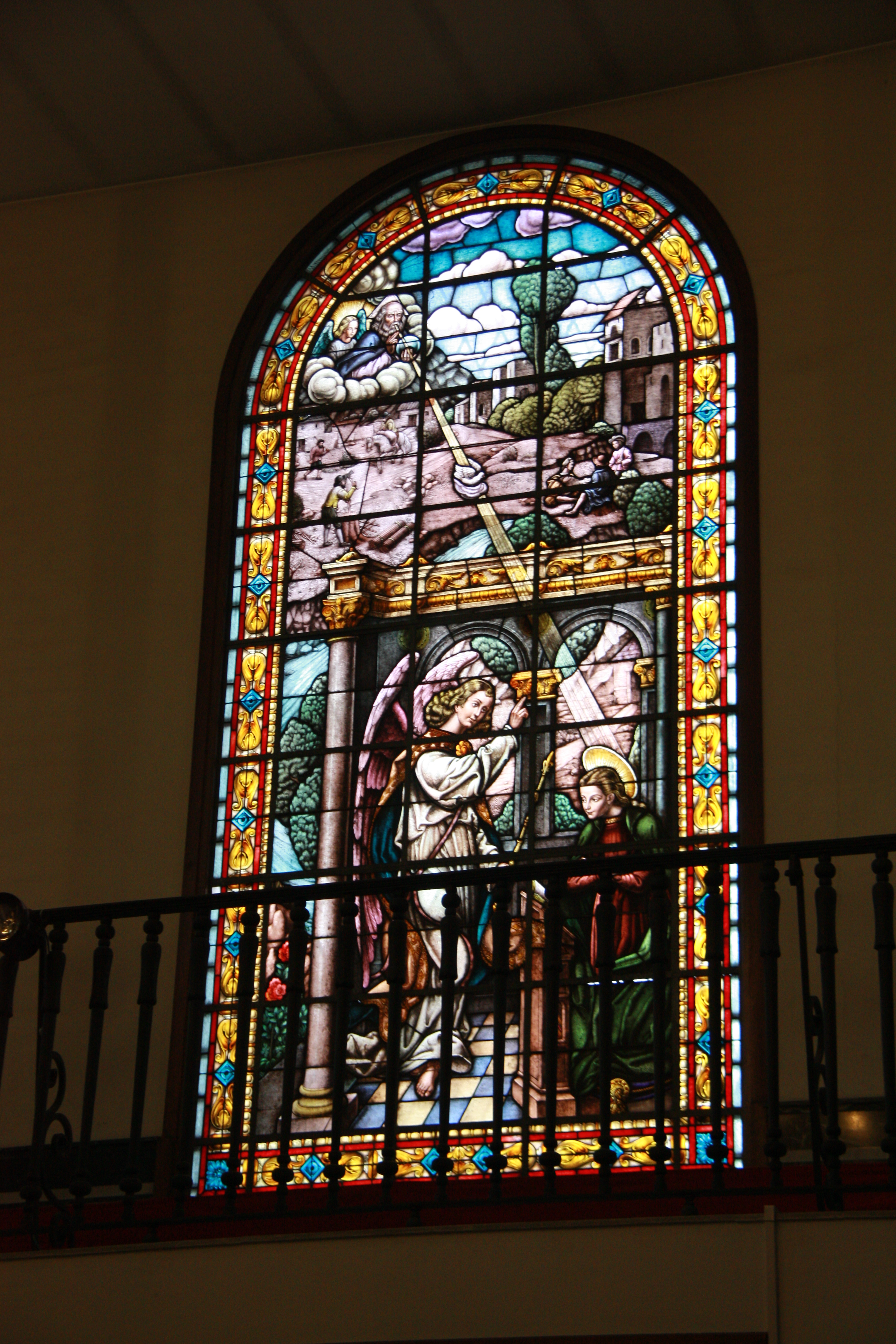 Window of la Esperanza Church, Malaga, Spain.